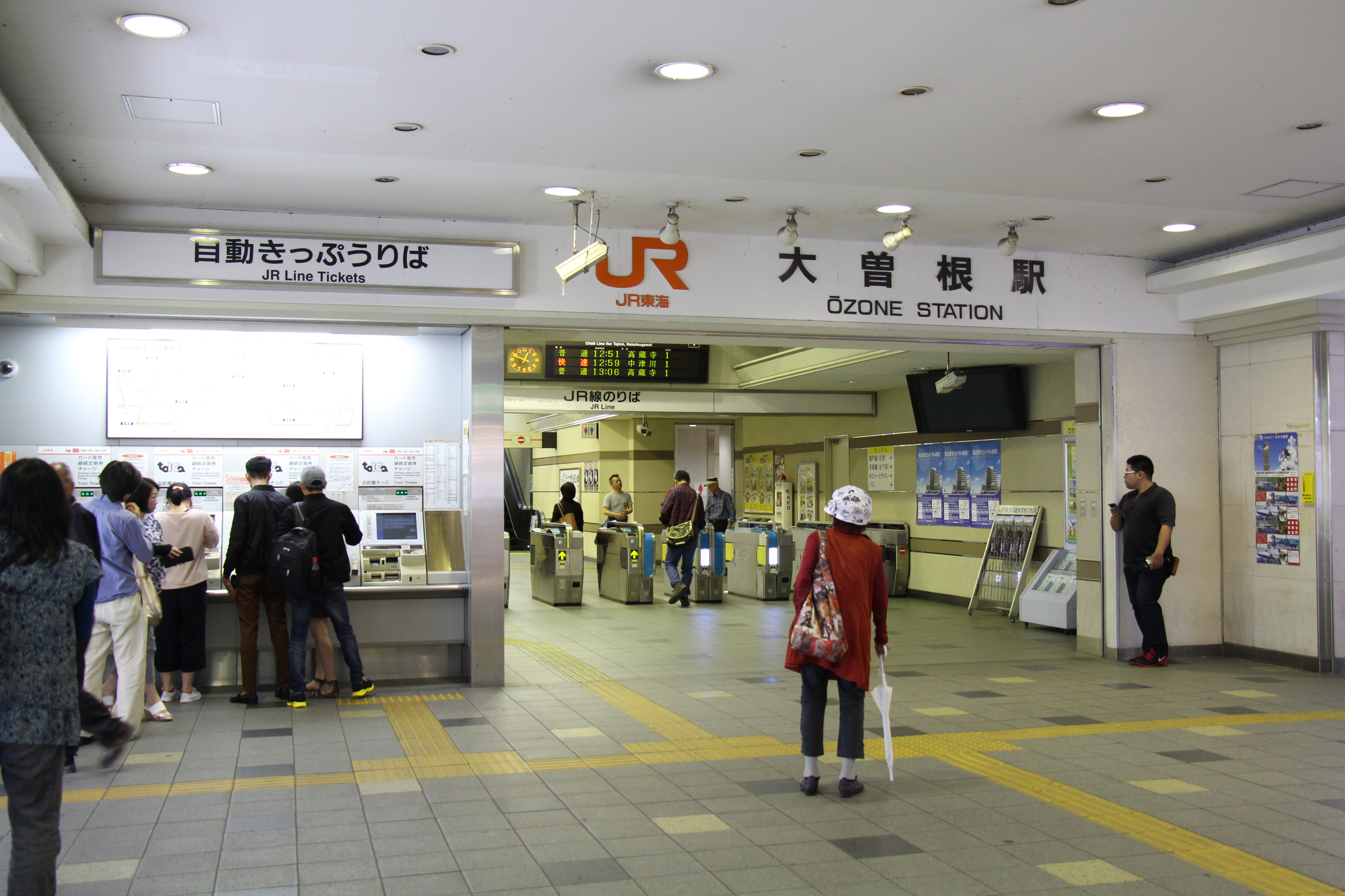 JR Ōzone Station Exit (North Side)